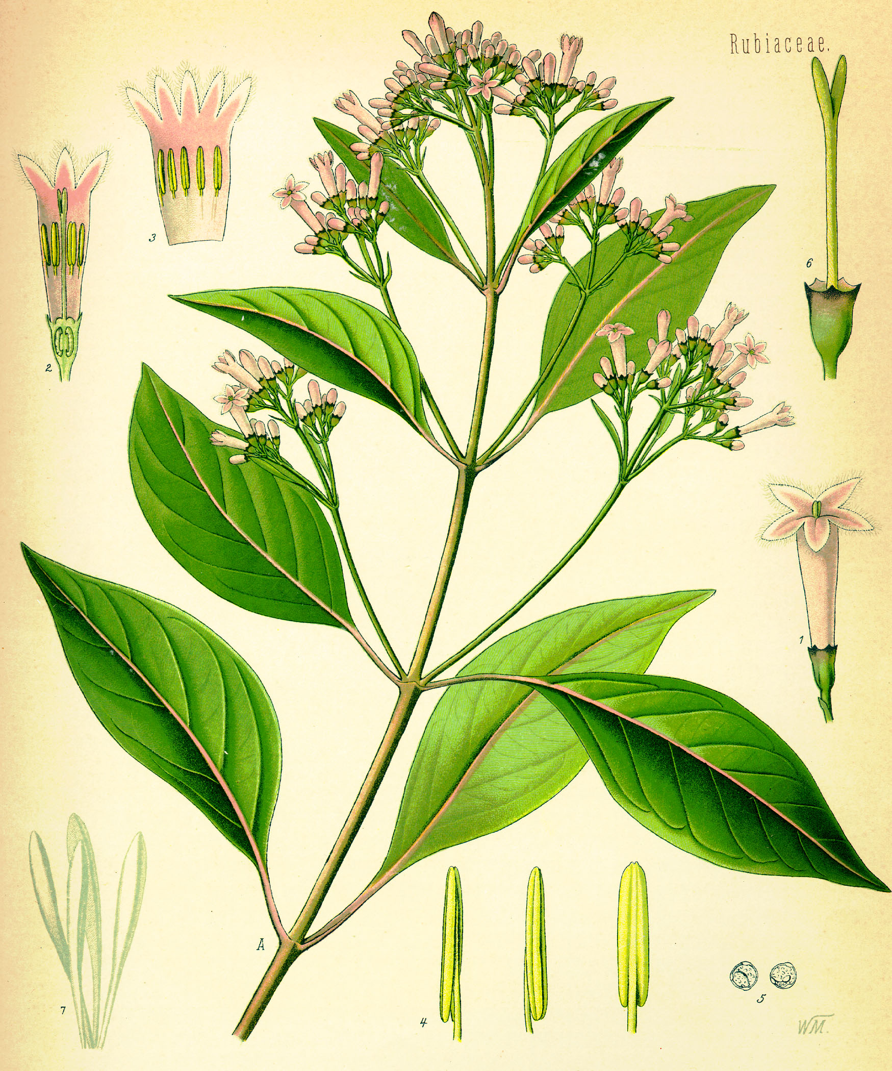 Illustration of CINCHONA officinalis Hook. fil. 79 III (Cinchona officinalis L., quinine)